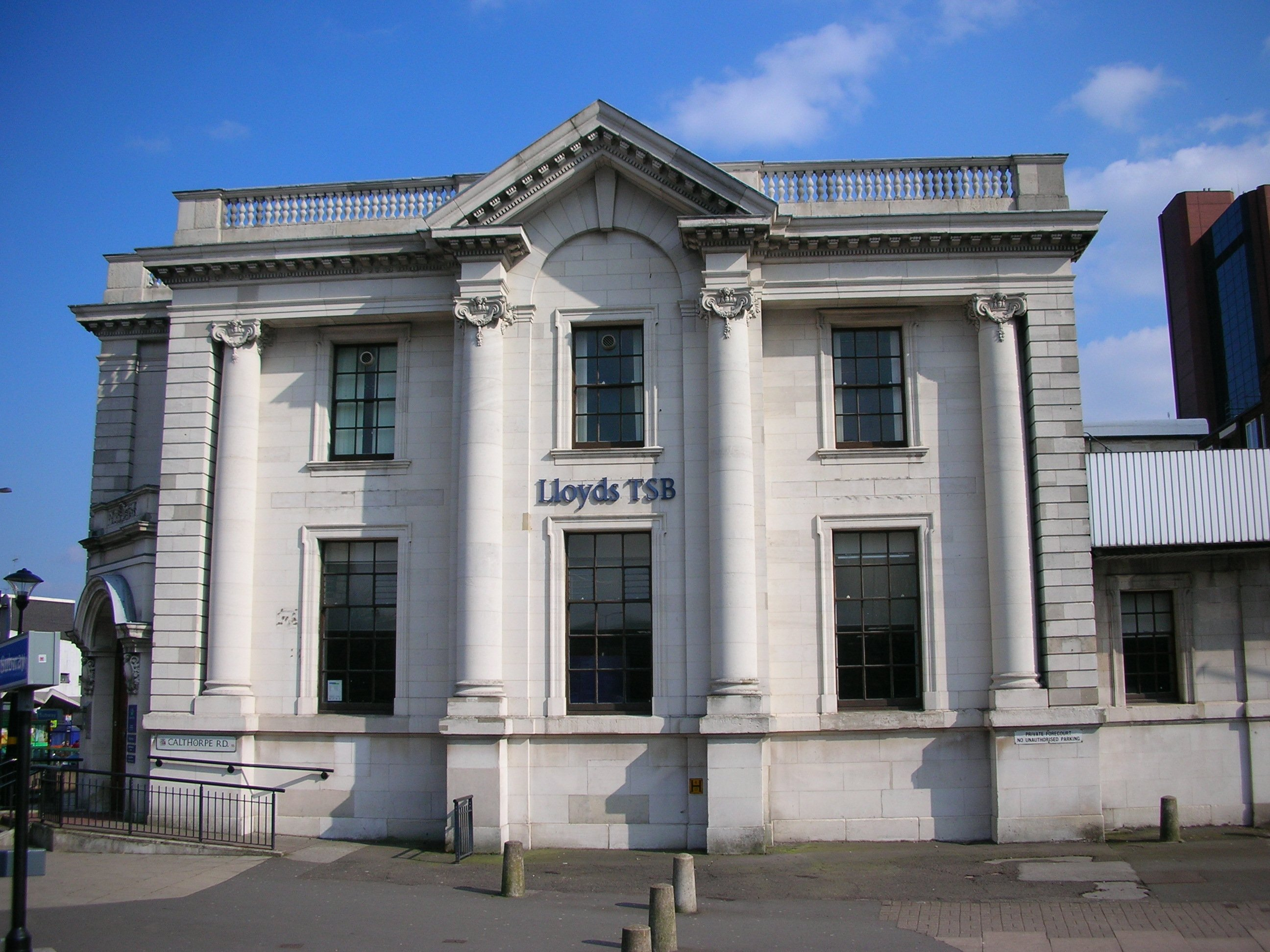 Lloyds Bank, Five Ways, Birmingham, England. Designed by P. B. Chatwin (1908-9). Photographed by me 7 April 2007. Oosoom